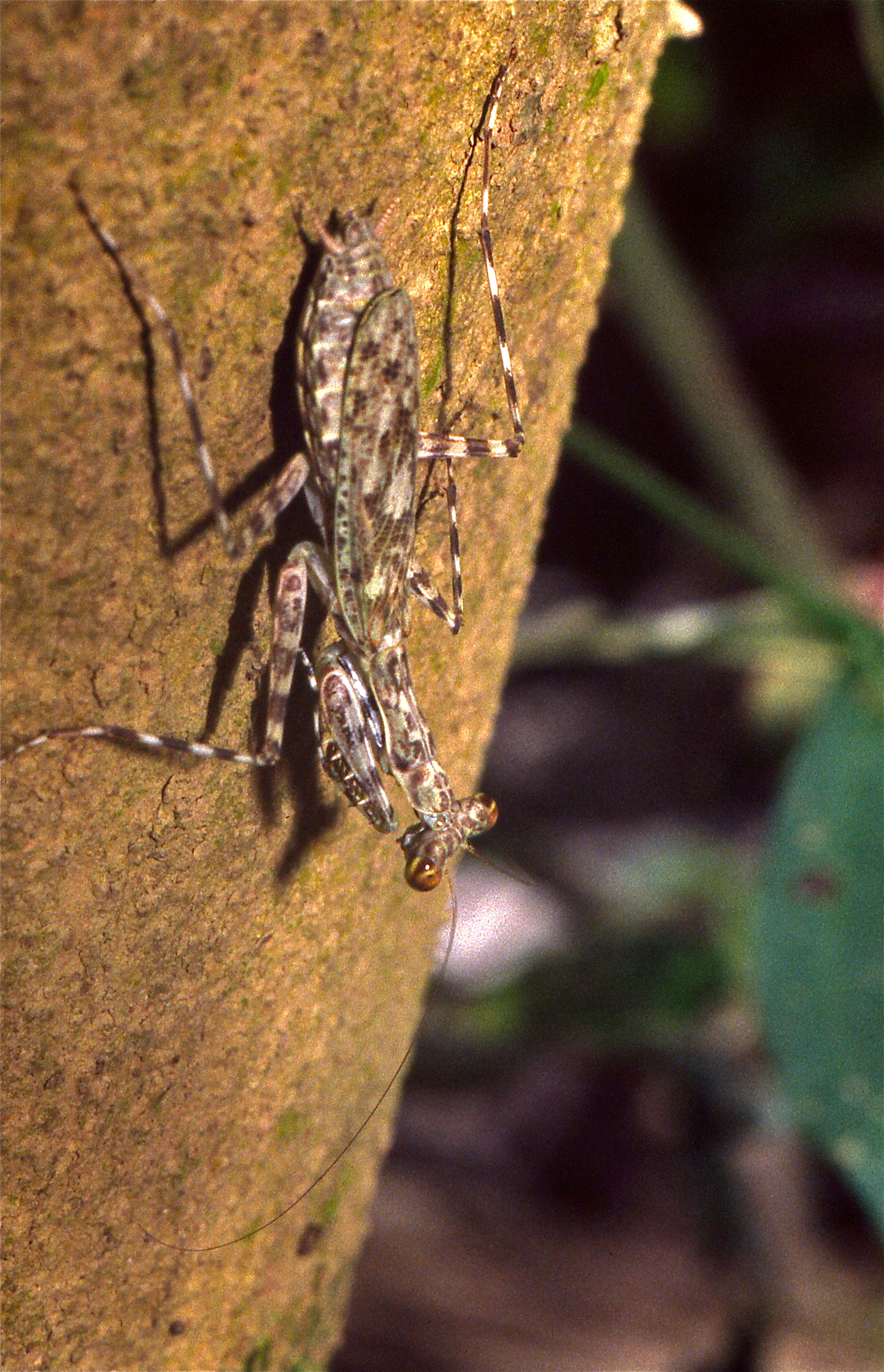 Santa Rosa NP, Guanacaste, COSTA RICA Scanned Slide from January 1997